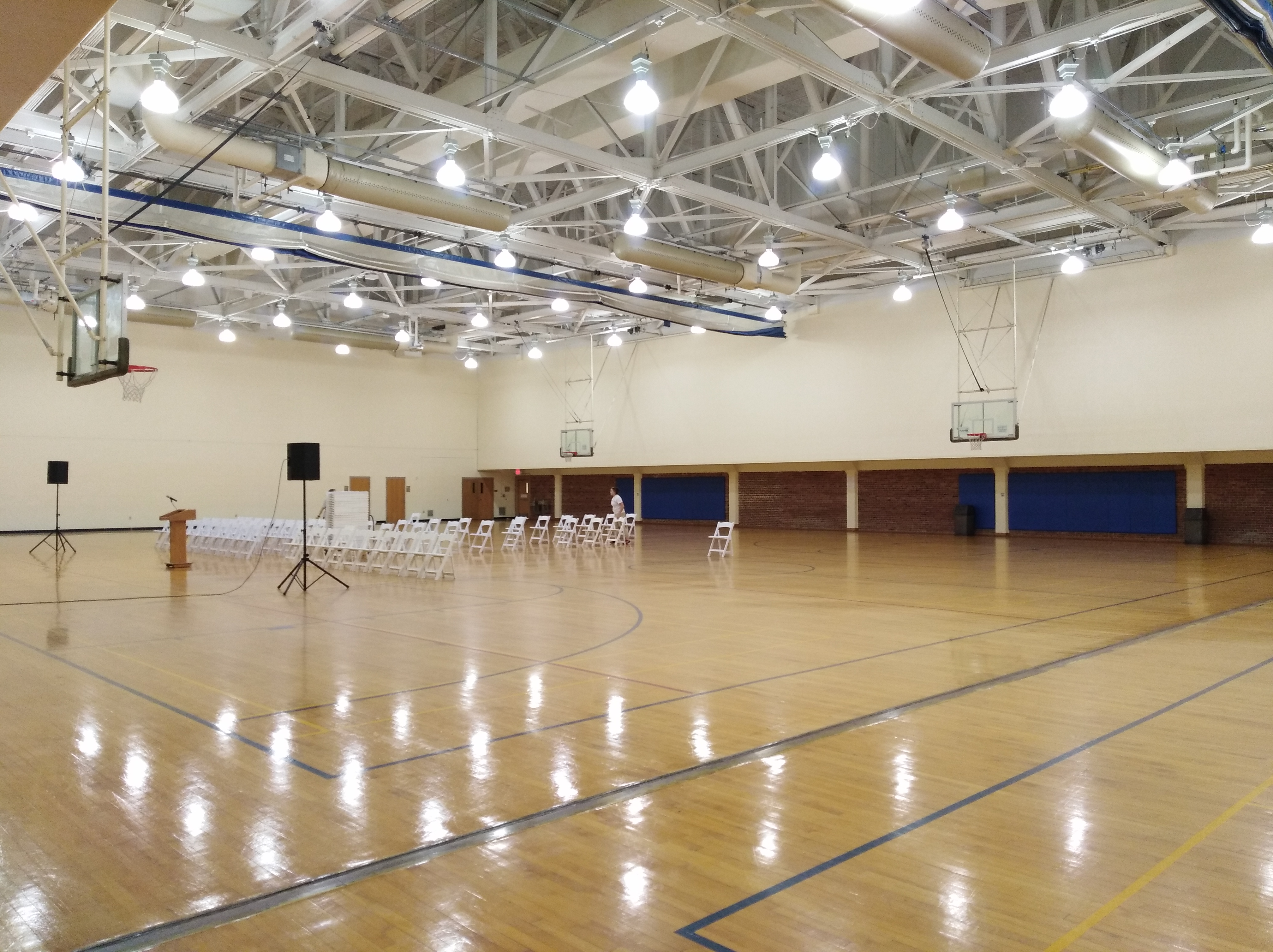 Interior of the Florida Gym at the University of Florida in Gainesville